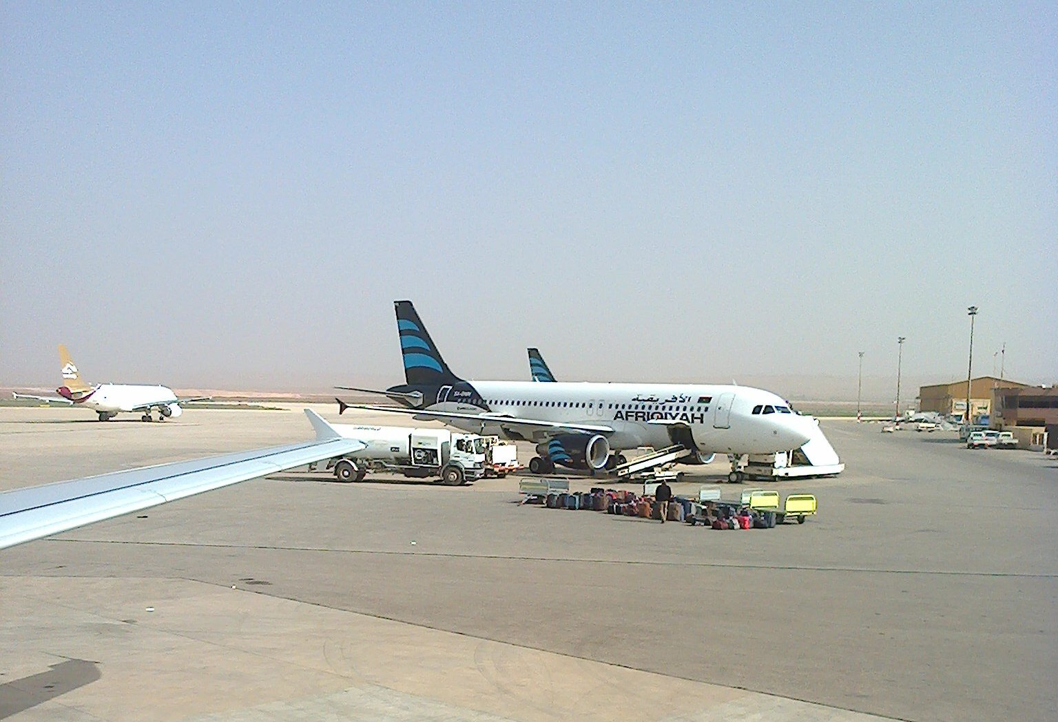 Two airplanes one of Afriqiyah airways (loading at right), the other is of Libyan airlines in Benina international airport.